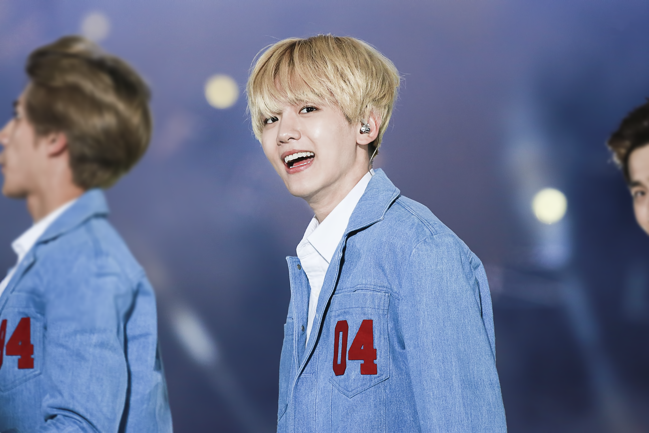 Baekhyun at One K concert on October 9, 2015.